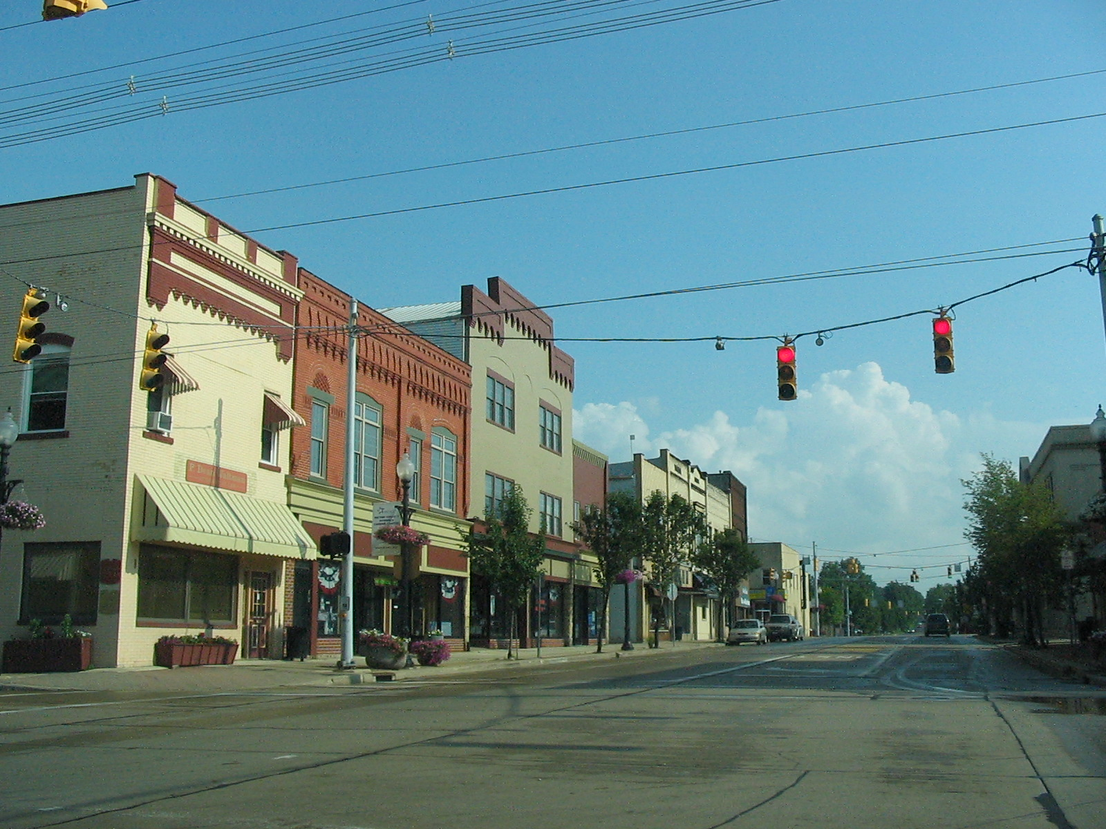 Image taken by me for Wikipedia